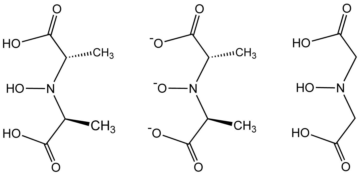 revd structure of ligands related to natural product called amavadin